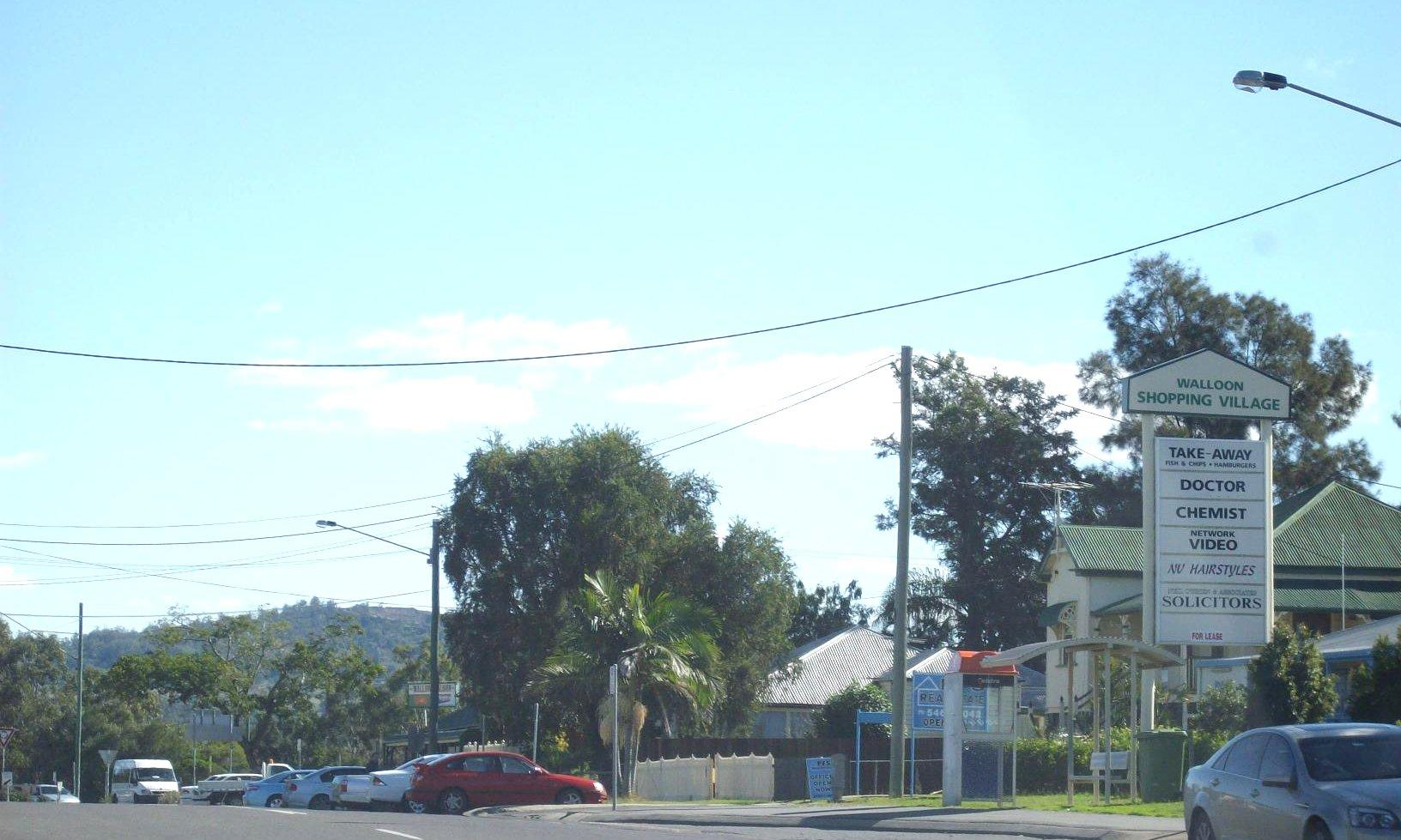 Walloon